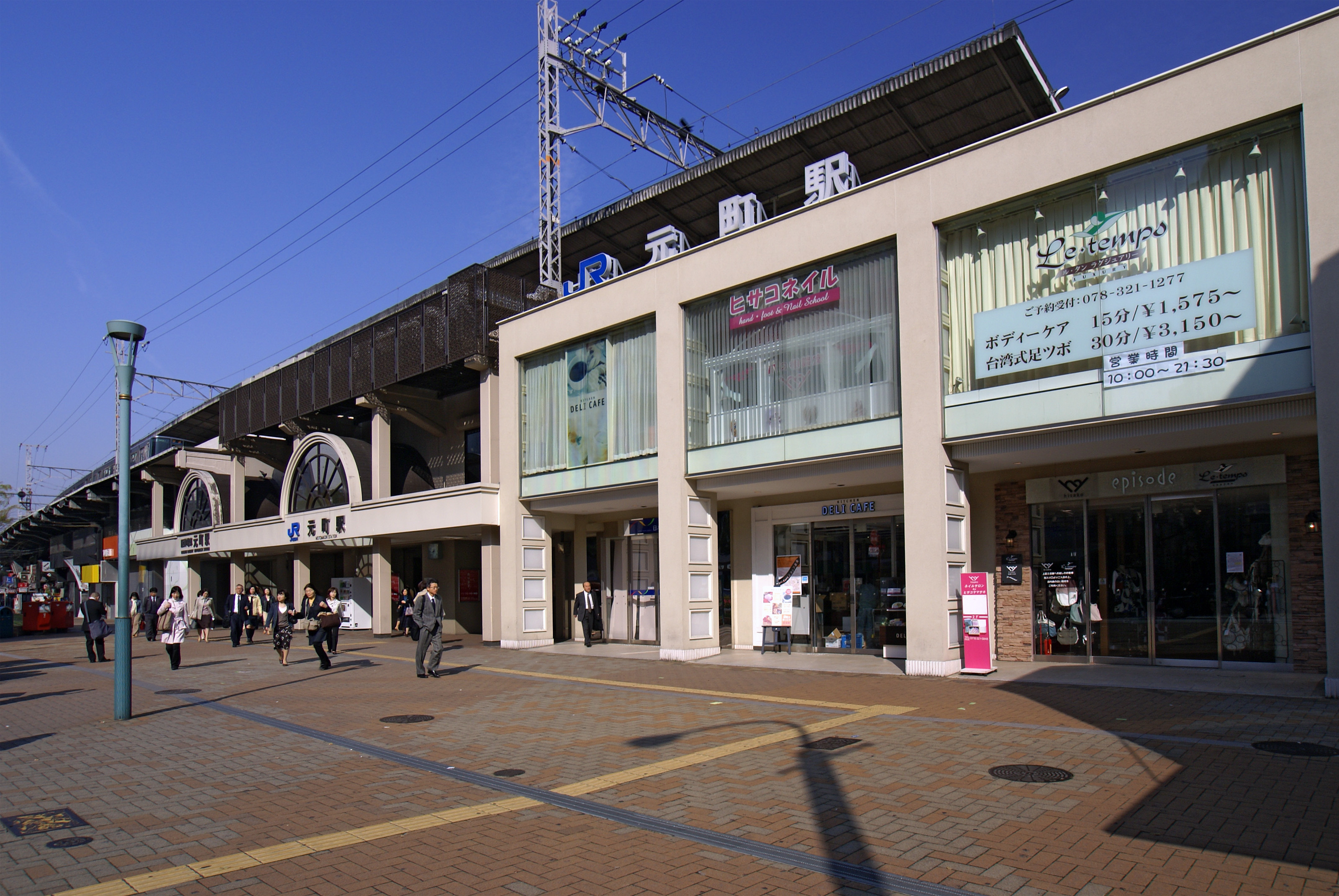 JR Motomachi Station in Kobe, Hyogo prefecture, Japan